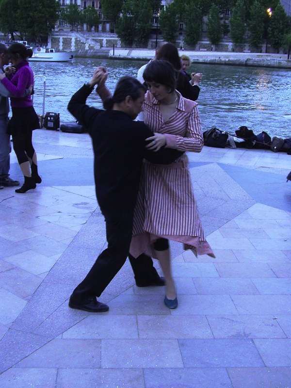 A tango dancer at the "quais de seine" in Paris